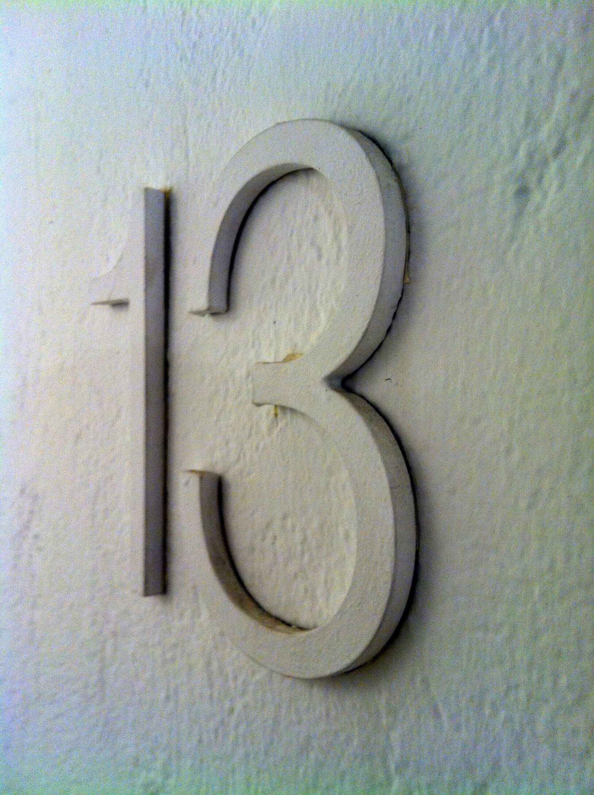 Espai 13- Temporary exhibits Room at Fundació Joan Miró